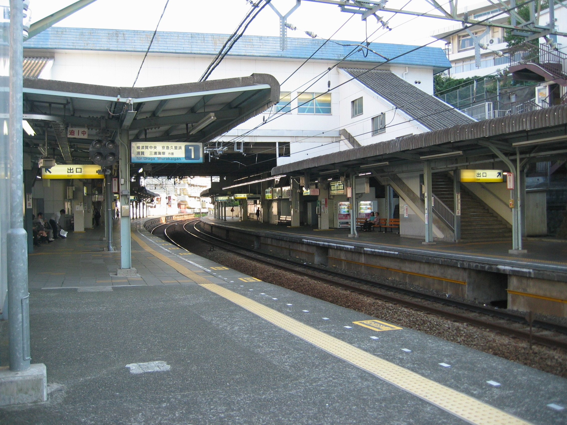 Keikyu Main Line, Oppama Station platform(Kanagawa, Japan)